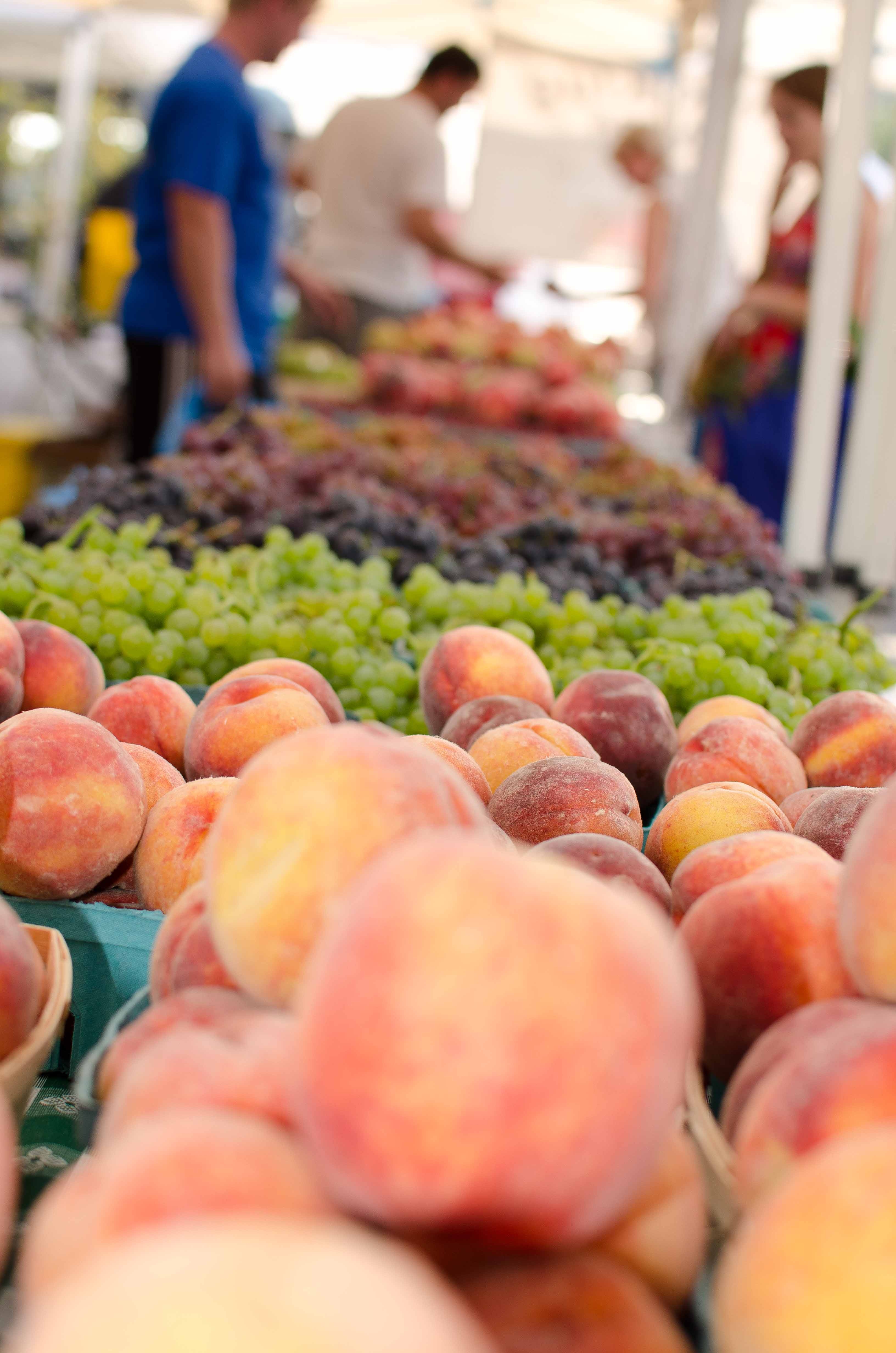 Lincoln Square Farmers Market in Chicago, IL.